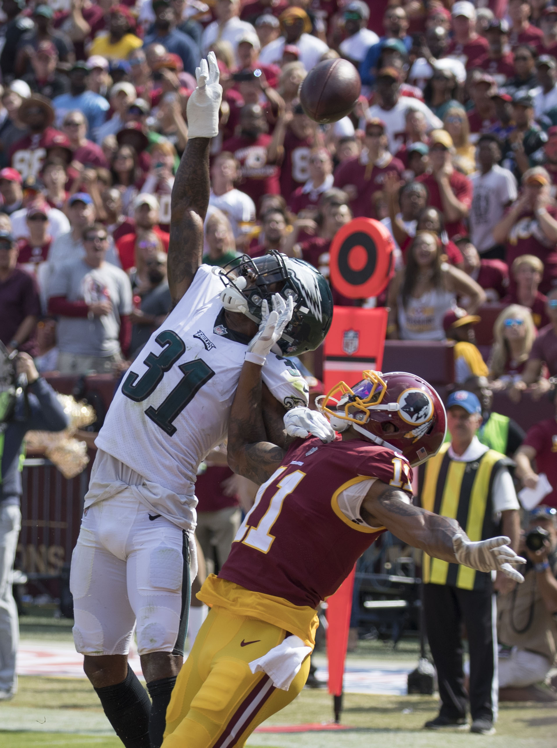 Philadelphia Eagles cornerback Jalen Mills deflects a pass intended for Washington Redskins wide receiver Terrelle Pryor in a game on September 10, 2017, at FedExField in Landover, MD.